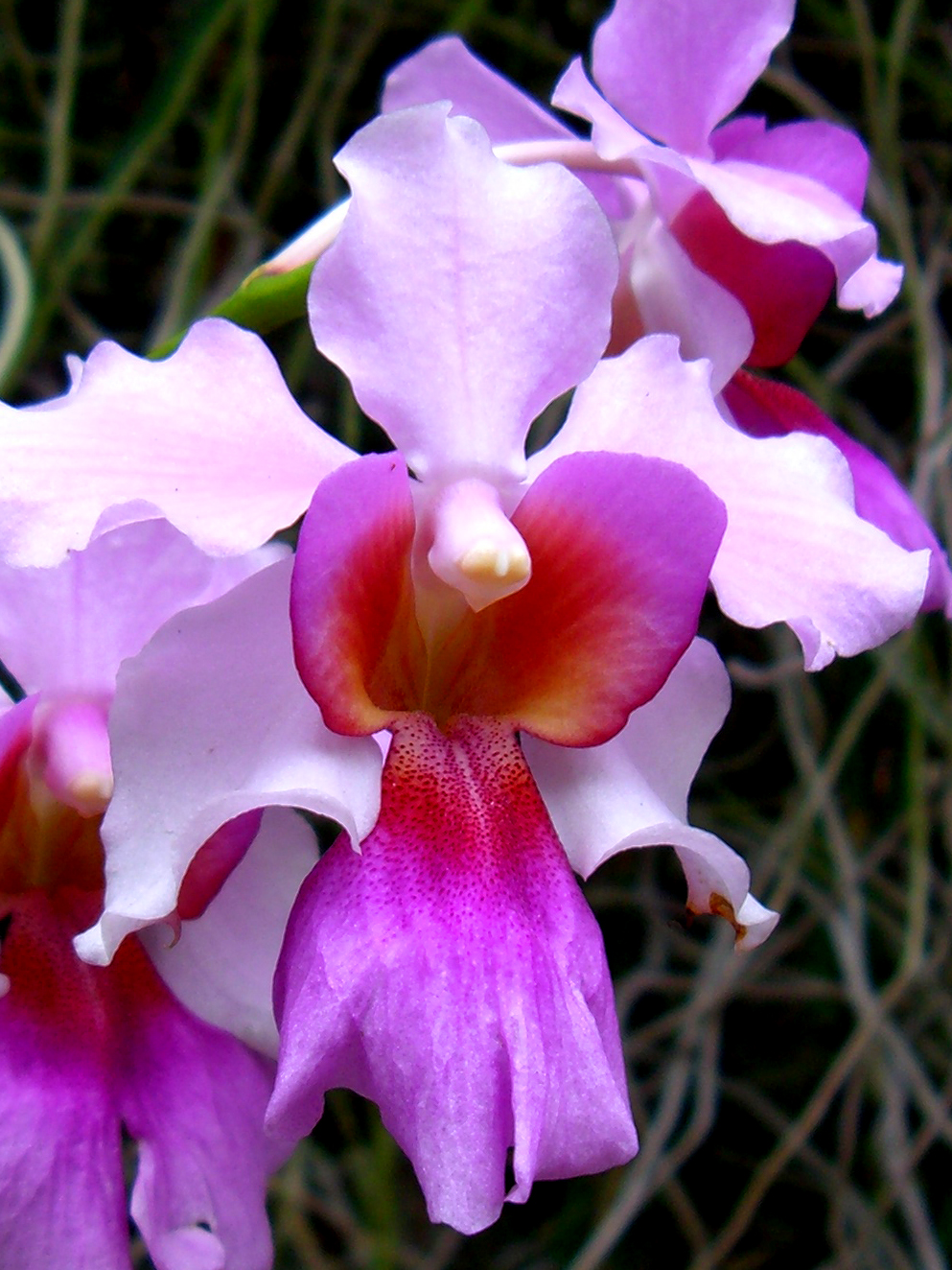 The Vanda Miss Joaquim orchid, Singapore's national flower, photographed at the National Orchid Garden in the Singapore Botanic Gardens, Singapore.